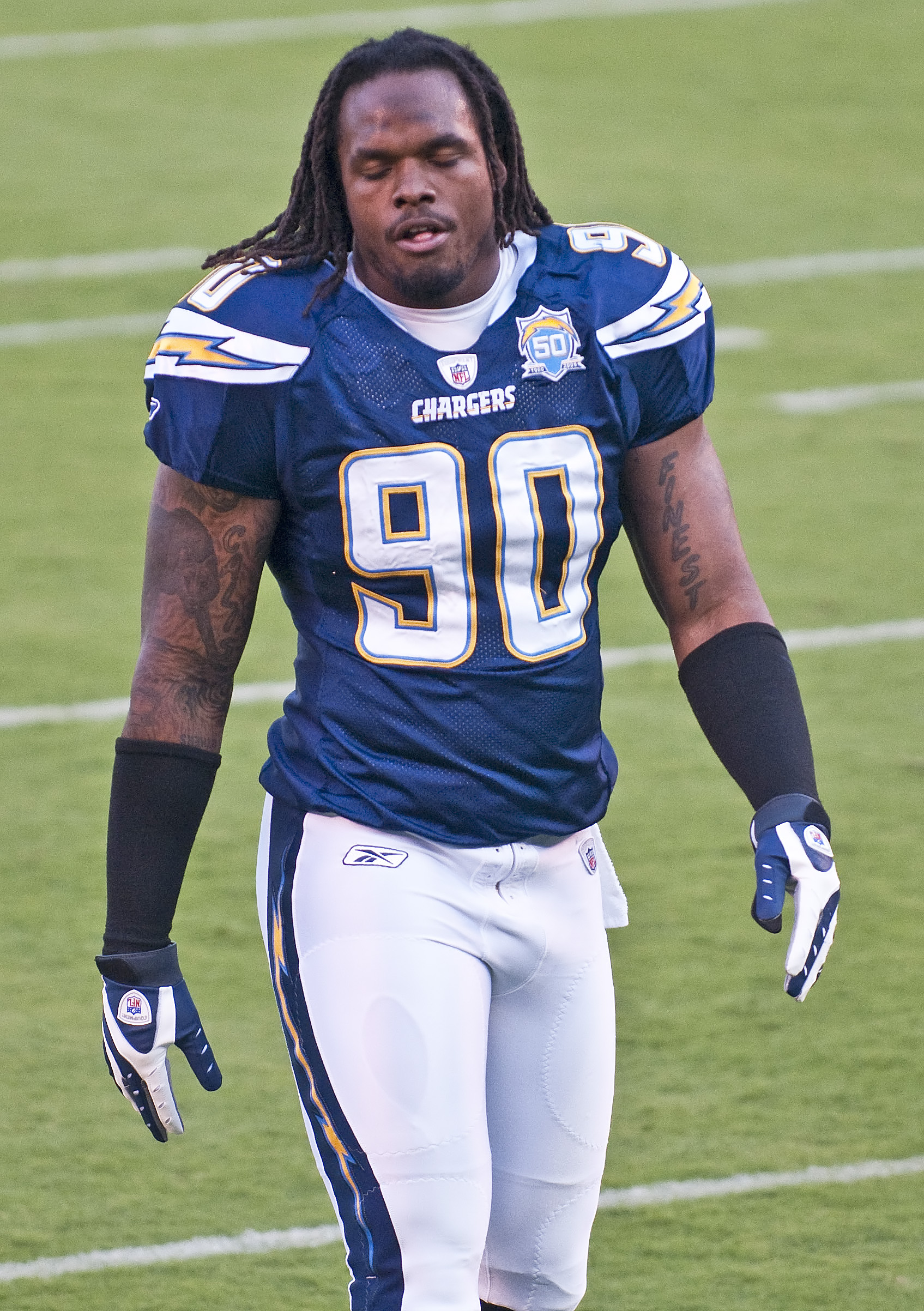 Antwan Applewhite on September 4, 2009